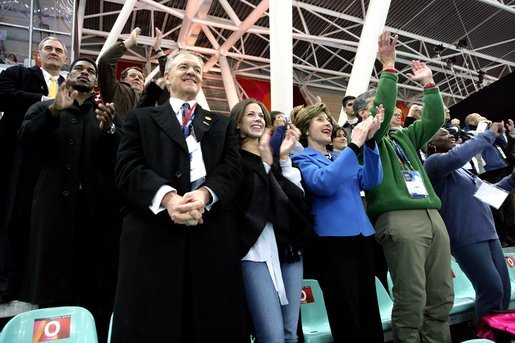 Laura Bush, her daughter, Barbara, and members of the U.S. Olympic Delegation, cheer on American Speed Skater Chad Hedrick Saturday, Feb. 11, 2006, during his heat at the 2006 U.S. Winter Olympics, in Turin, Italy. Hedrick went on to win the first gold medal for the United States.